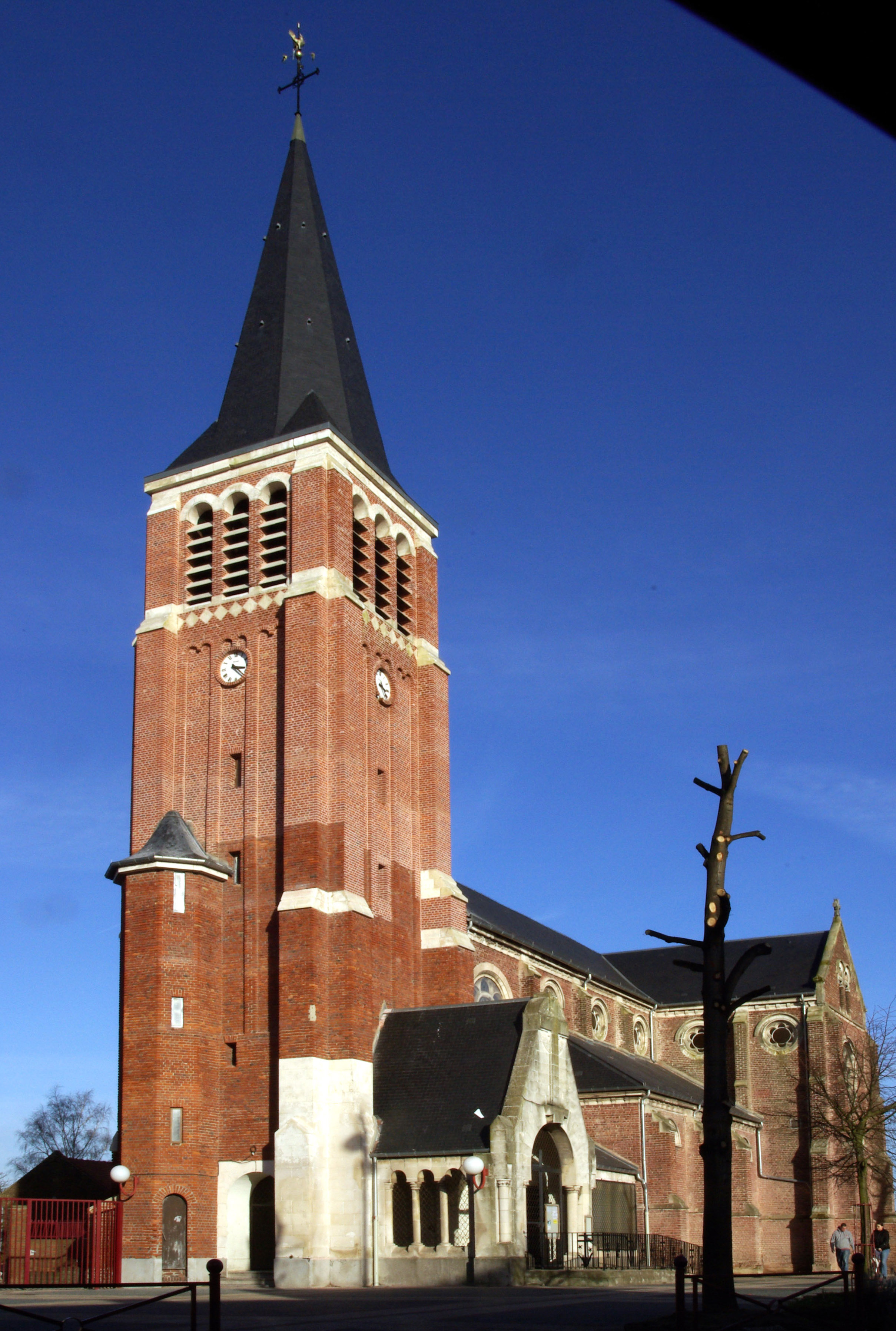 Church of Courcelles-lès-Lens